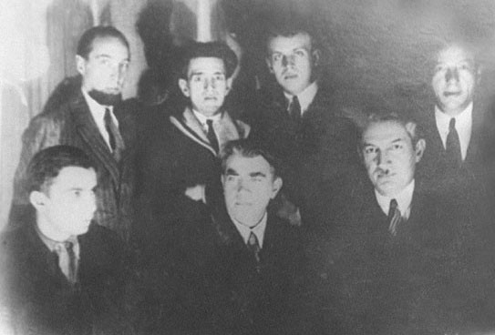 Down, from the left: Afrasiyab Badalbeyli, Reyngold Gliyer and Muslim Magomayev